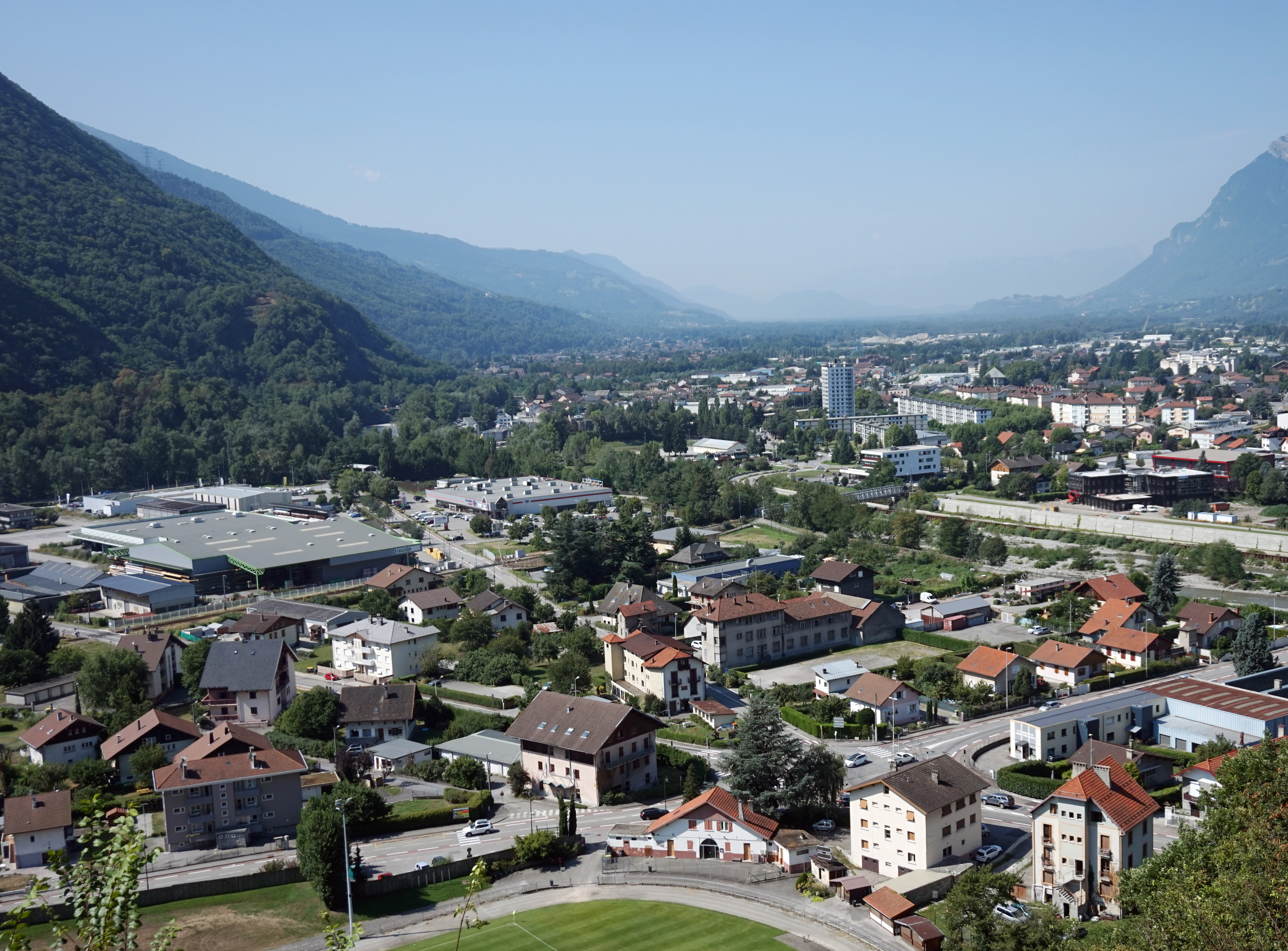 Albertville, FranceThis photograph was taken with a Sony ILCE-5000